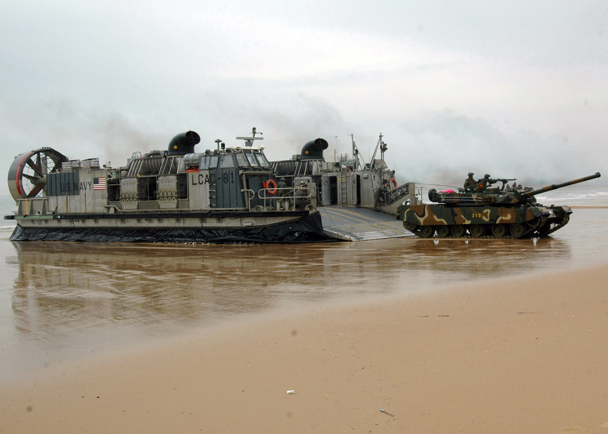 070329-N-6710M-012 SOUTH CHINA SEA (March 29, 2007) - A Republic of Korea tank exits a Landing Craft Air Cushion (LCAC) in preparation in support of Foal Eagle 07. Foal Eagle is an annually scheduled exercise involving forces from the U.S. and the Republic of Korea (ROK) to improve combat readiness through interoperability. The amphibious assault ship USS Tortuga and the Essex Amphibious Ready Group (ESXARG) are the Navy's only forward deployed multi-purpose amphibious assault ship and is the flagship for the Essex Amphibious Ready Group (ARG). U.S. Navy photo by Mass Communication Specialist Seaman Brandon Myrick (RELEASED)